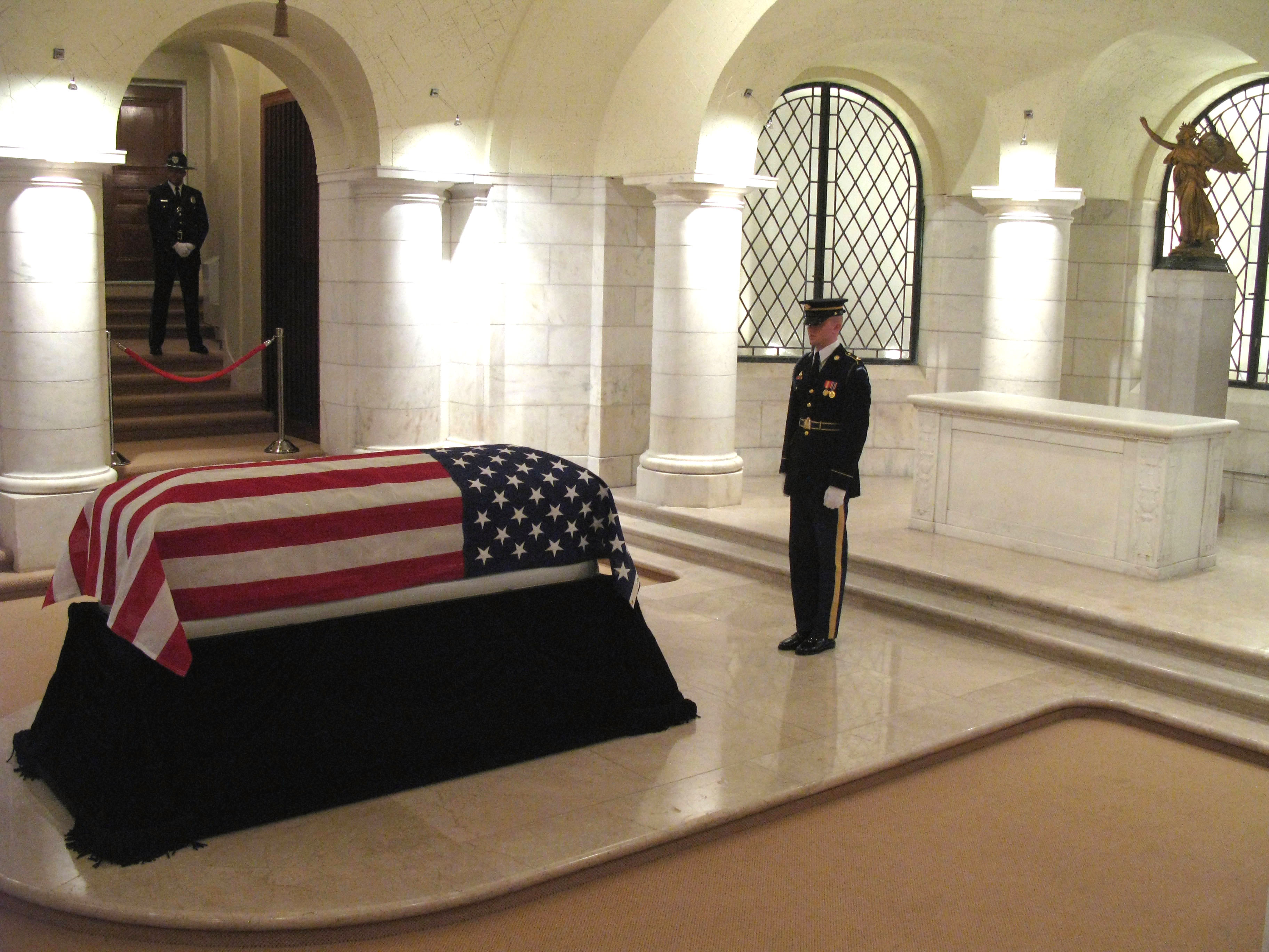 Frank Woodruff Buckles, last surviving American veteran of World War I, lies in state in the chapel beneath Memorial Amphitheater at Arlington National Cemetery in Washington, D.C., on March 15, 2011. To the right, behind the soldier at attention, is the chapel's marble alter. The below-ground crypt beneath the amphitheater is behind the faux windows behind the altar. The south stairs are visible to the left of the image, guarded by a sentry and closed by a red velvet rope. The door leading to the right on the stairs leads into the unused crypt beneath Memorial Amphitheater. The door behind the sentry leads to a service room. (Originally, a kitchen and a serving room were located off the chapel. The Amphitheater's Memorial Display Room was originally intended to be a reception hall, and the kitchen and serving room allowed for food to be served there. These two rooms no longer serve that purpose.) Congress authorized construction of the Memorial Amphitheater on March 4, 1913. Ground-breaking occurred on March 1, 1915, and President Woodrow Wilson placed the cornerstone on October 15, 1915. It was dedicated on May 15, 1920. The architect was Thomas Hastings of the New York City firm of Carrère and Hastings. The white marble came from Danby, Vermont. Ulysses A. Ricci designed the various friezes, ornamental devices, and decorative elements of the amphitheater. Stairs (not pictured) lead from the north and south ends of the foyer just past the Memorial Display Room on the first floor down to the chapel.